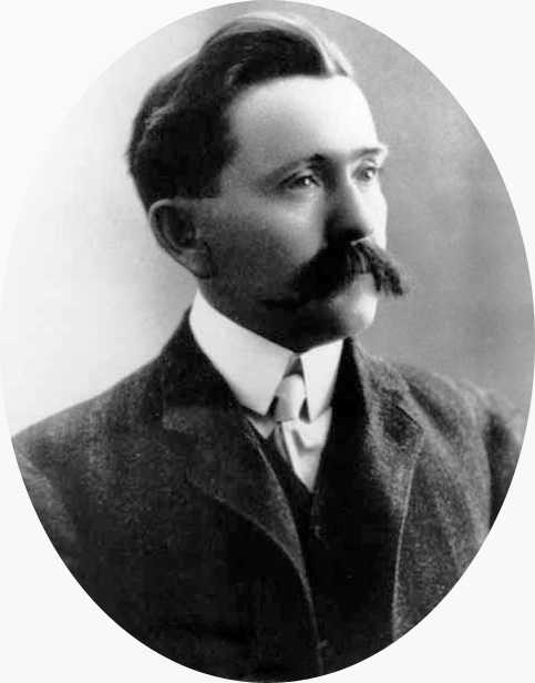 Alberta politician John Robert Boyle (1871–1936)